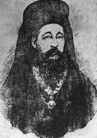 Eustathios o Kleovoulos (1824-1875): metropolitan of Kaisareia